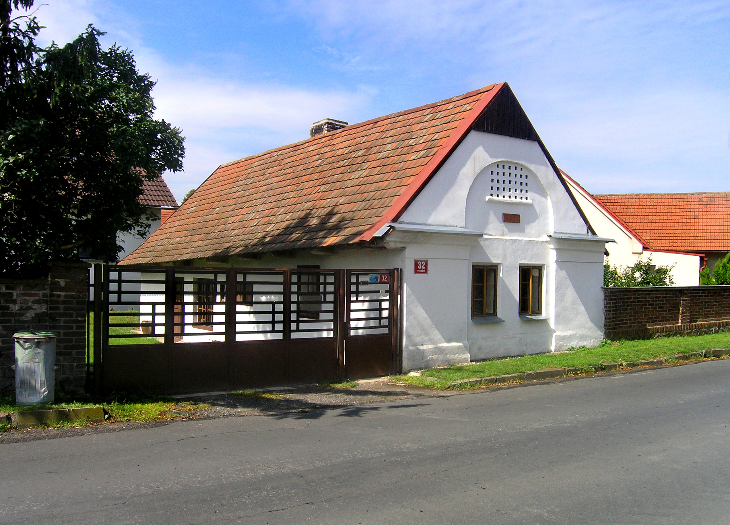 Old house in Němčice, Czech Republic